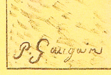 Detail of zincograph Old Women of Arles